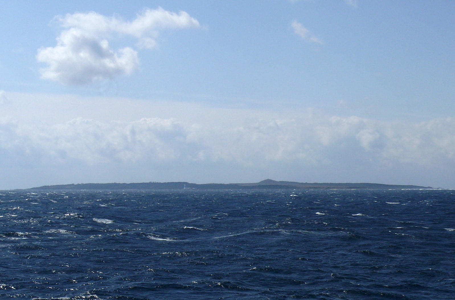 Mage Island East side.(Nishinoomote, Kagoshima, Japan).